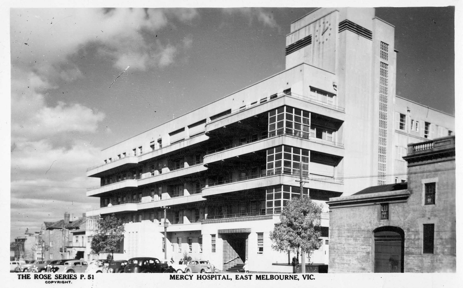 Mercy Hospital East Melbourne built 1934 Stephenson Meldrum architects